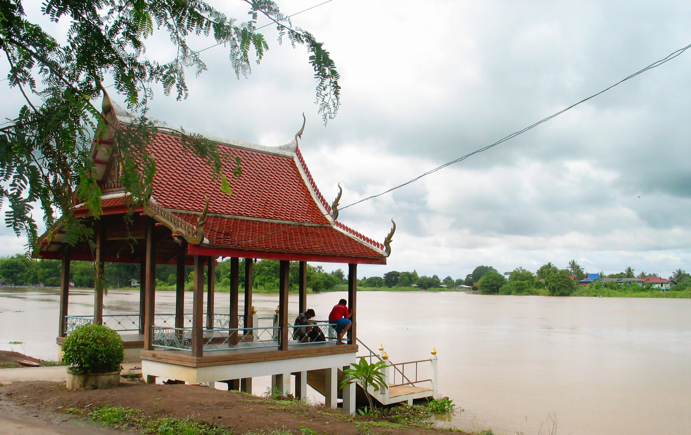 The Chao Phraya River, view from Wat Tha Suthawat, Ang Thong Province, central Thailand